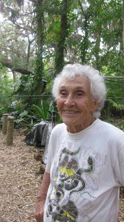 Ellen Peterson, Environmental Activist at her home and Eco-Spiritual Center Happehatchee